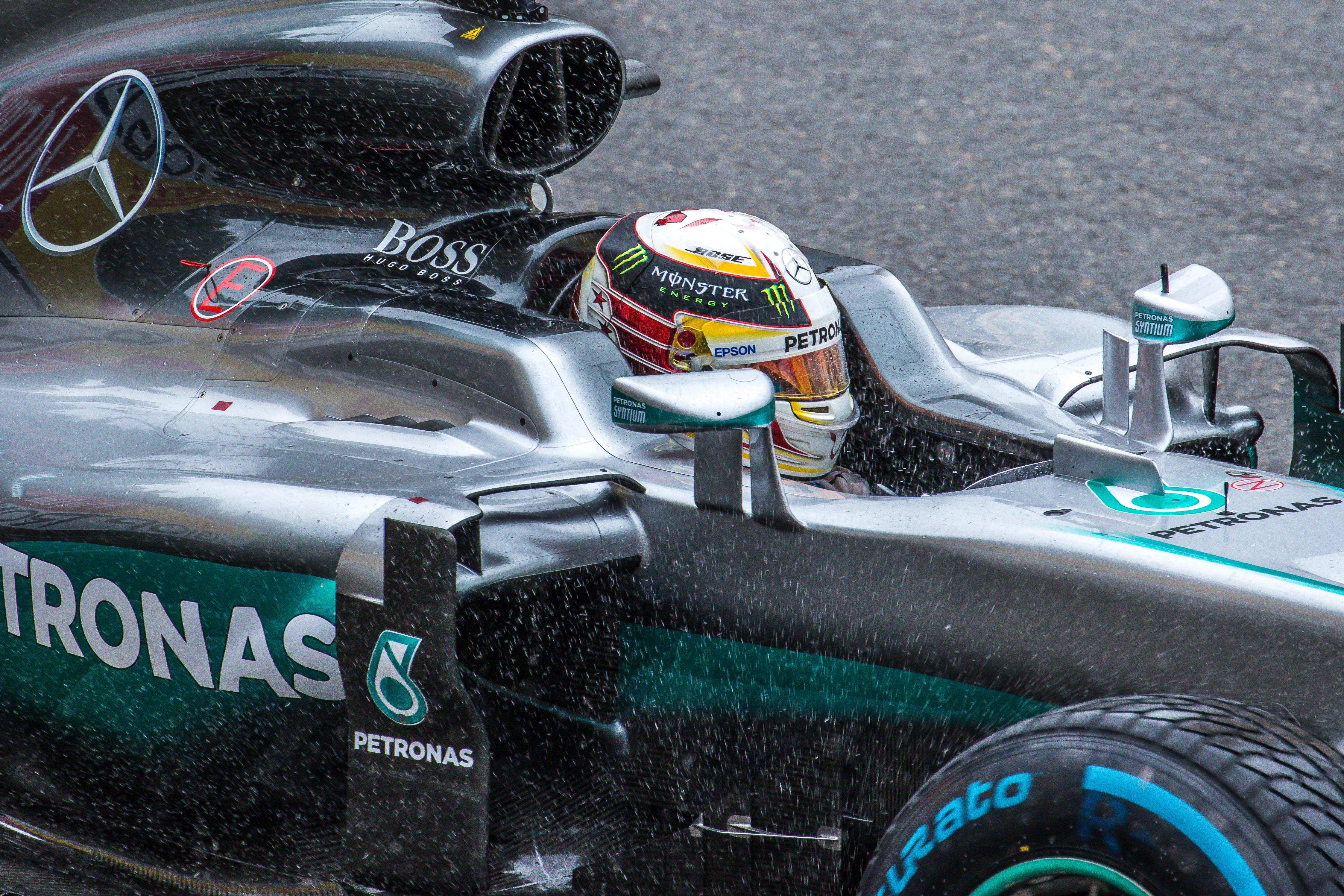 Lewis Hamilton at the at the 2016 Monaco Grand Prix